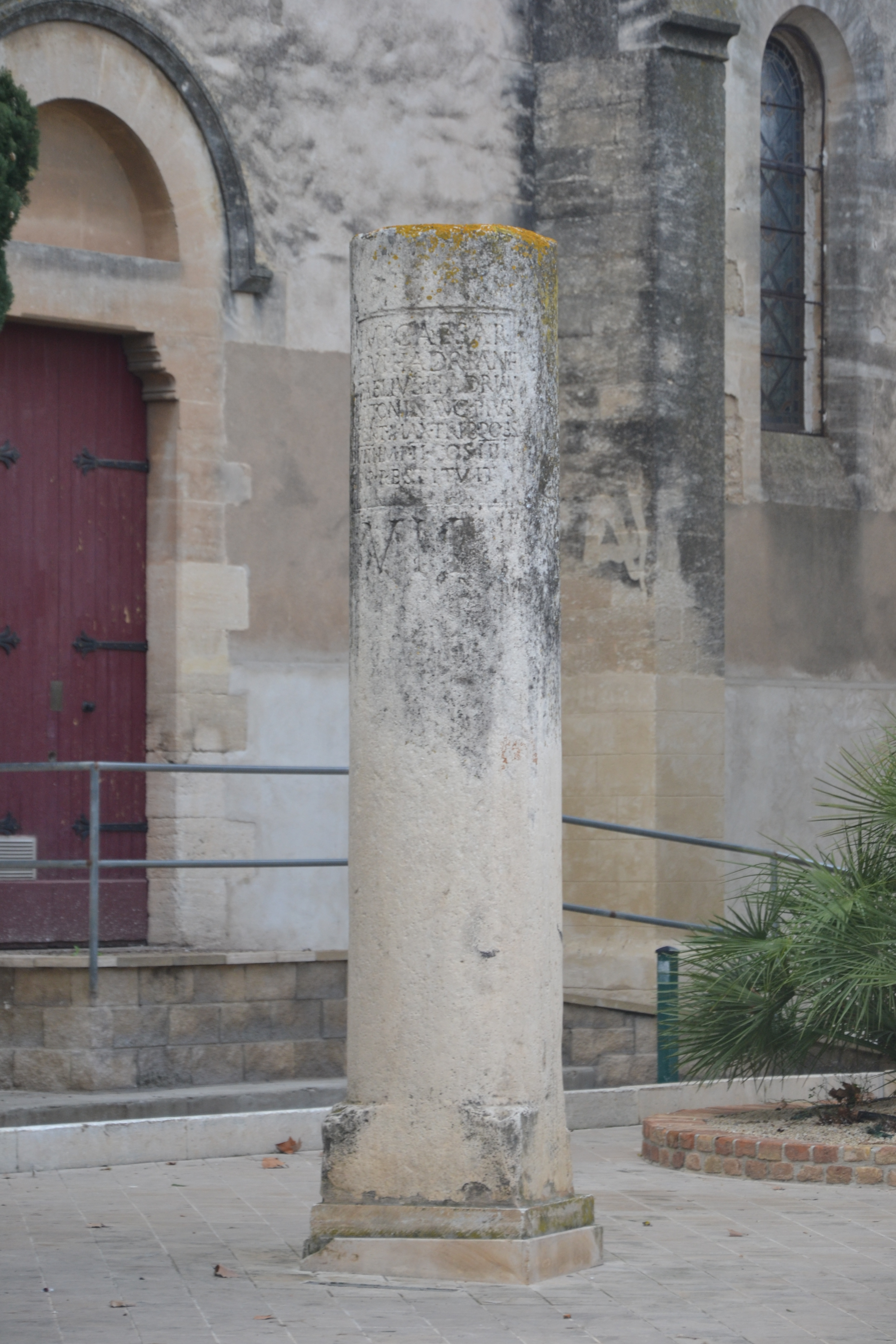 milestone of Antonin-le-Pieux, near by Manduel's town hall.